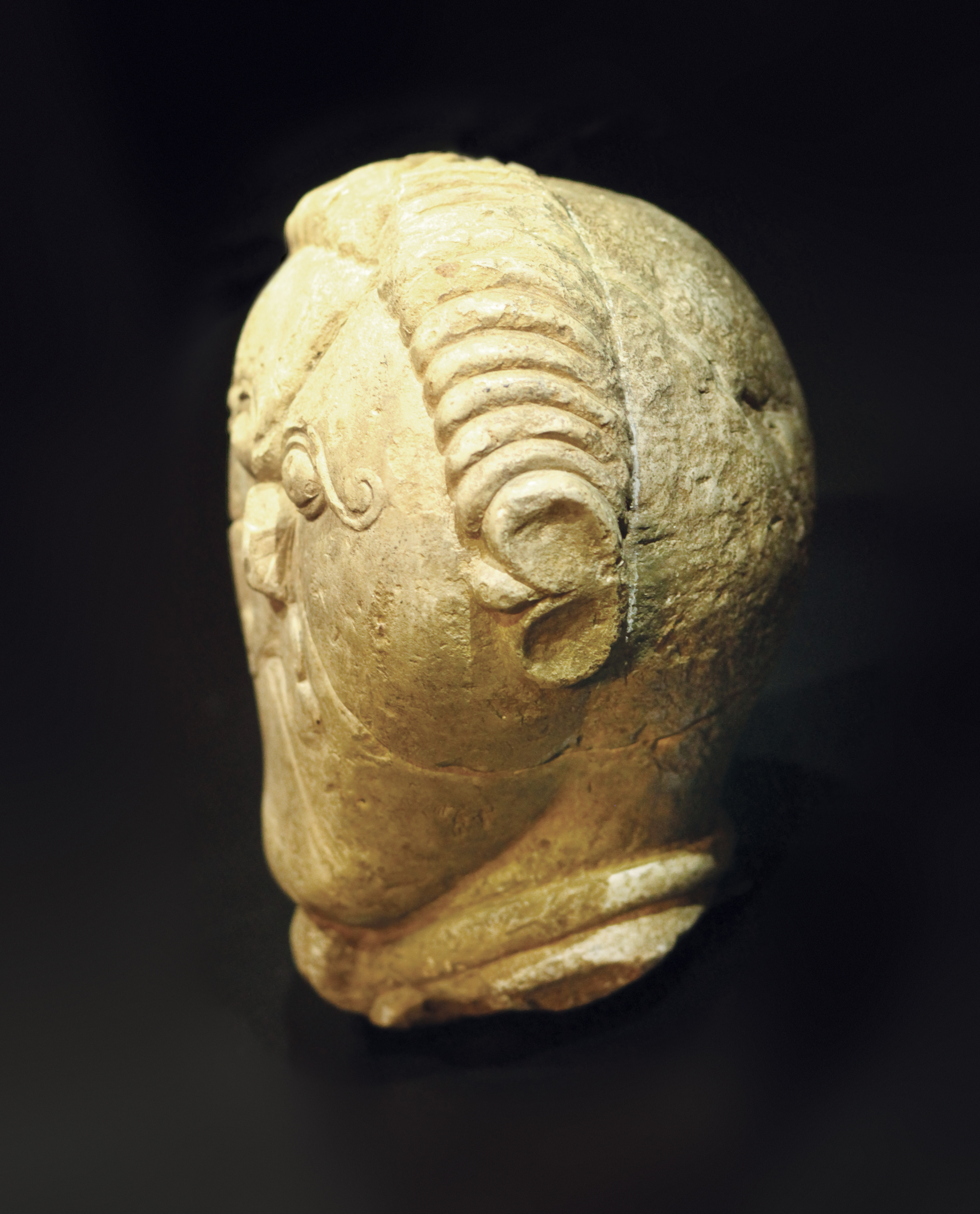 Stone sculpture of Celtic hero, from the sanctuary at Mšecké Žehrovice near Slaný, Czech Republic